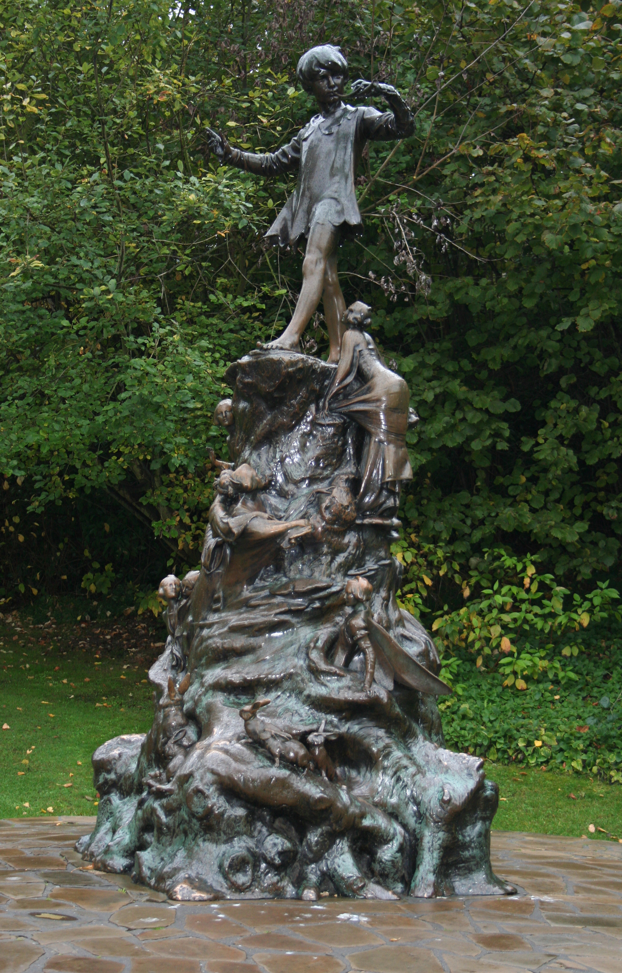 Monument to Peter Pan, Kensington Gardens, London